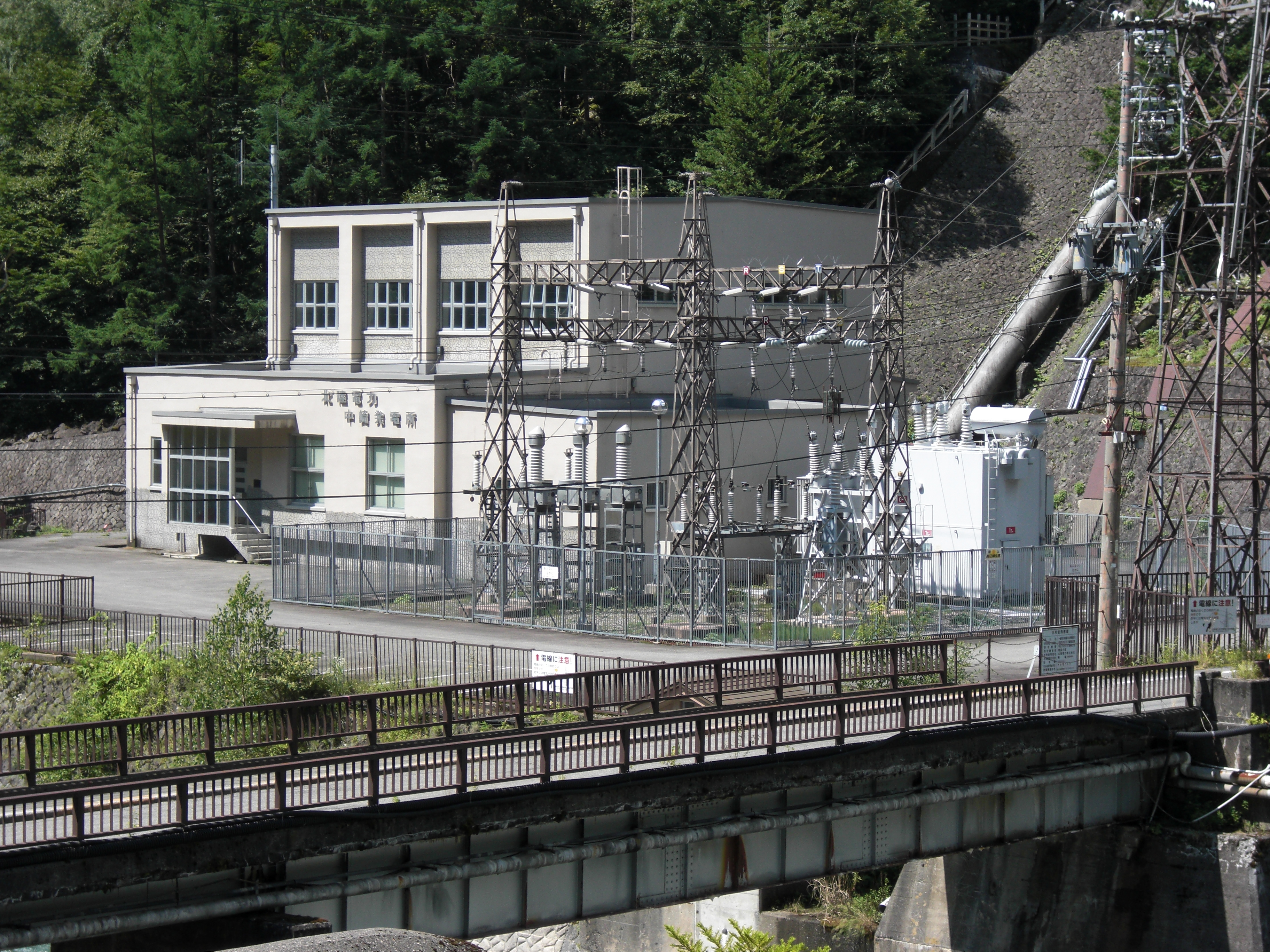 Nakazaki Power Plant